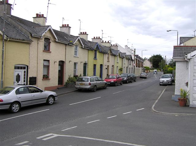 Clady, County Tyrone. The road leads north-east towards Strabane